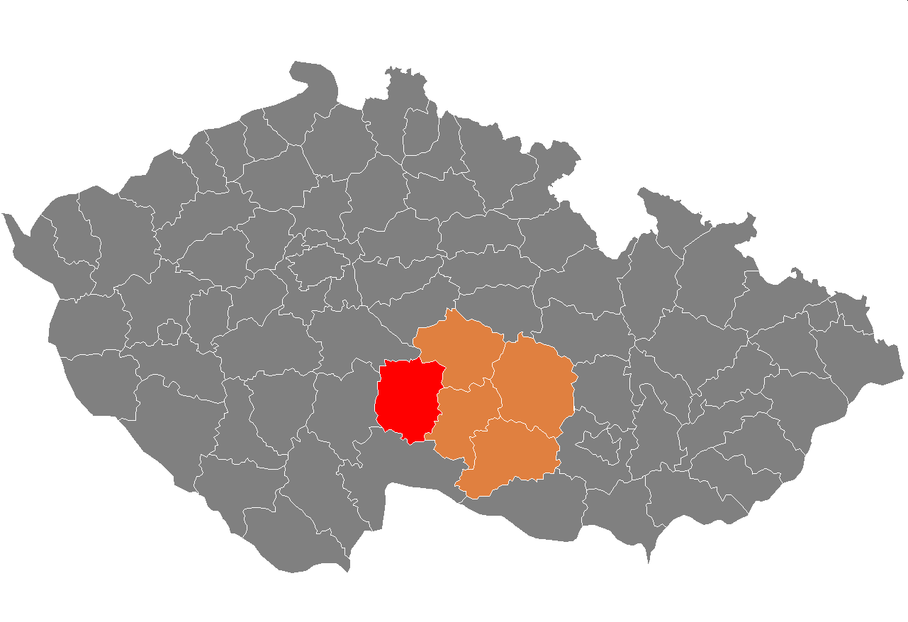 Location of Pelhřimov District in Vysočina Region and the Czech Republic.